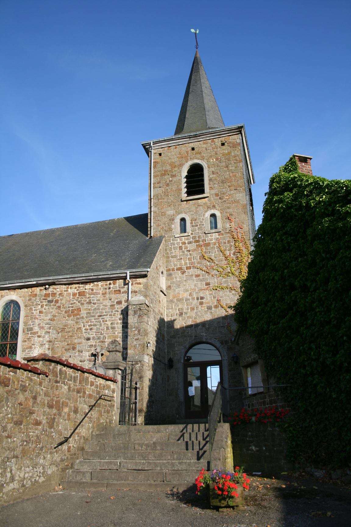 Hodister, Saint-Brice's church (XVIIth century).